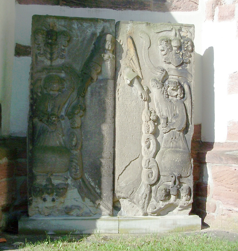 A tumbstone at the church.